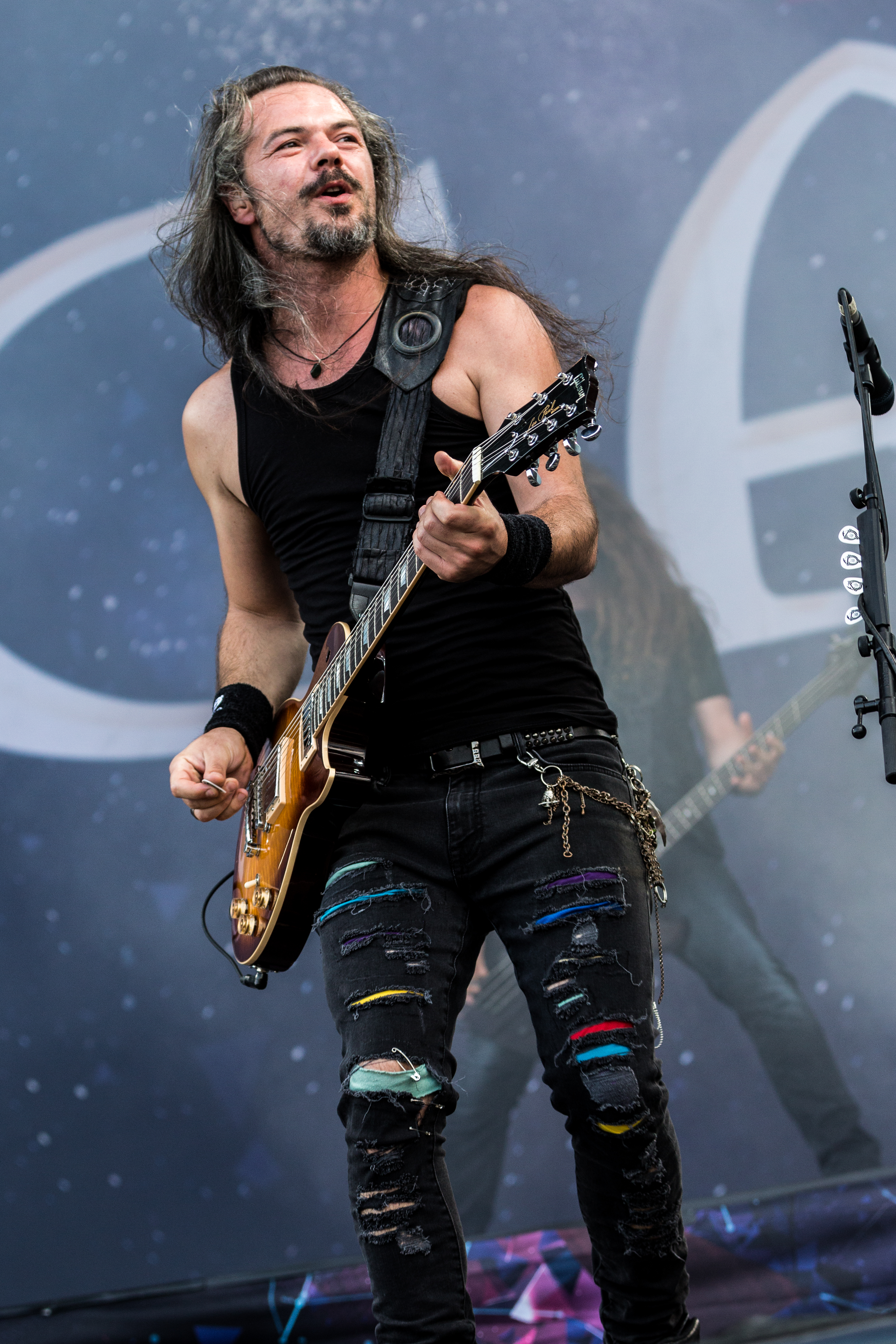 The Dutch symphonic metal band Epica at the Summer Breeze Open Air 2017 in Dinkelsbühl/Germany.